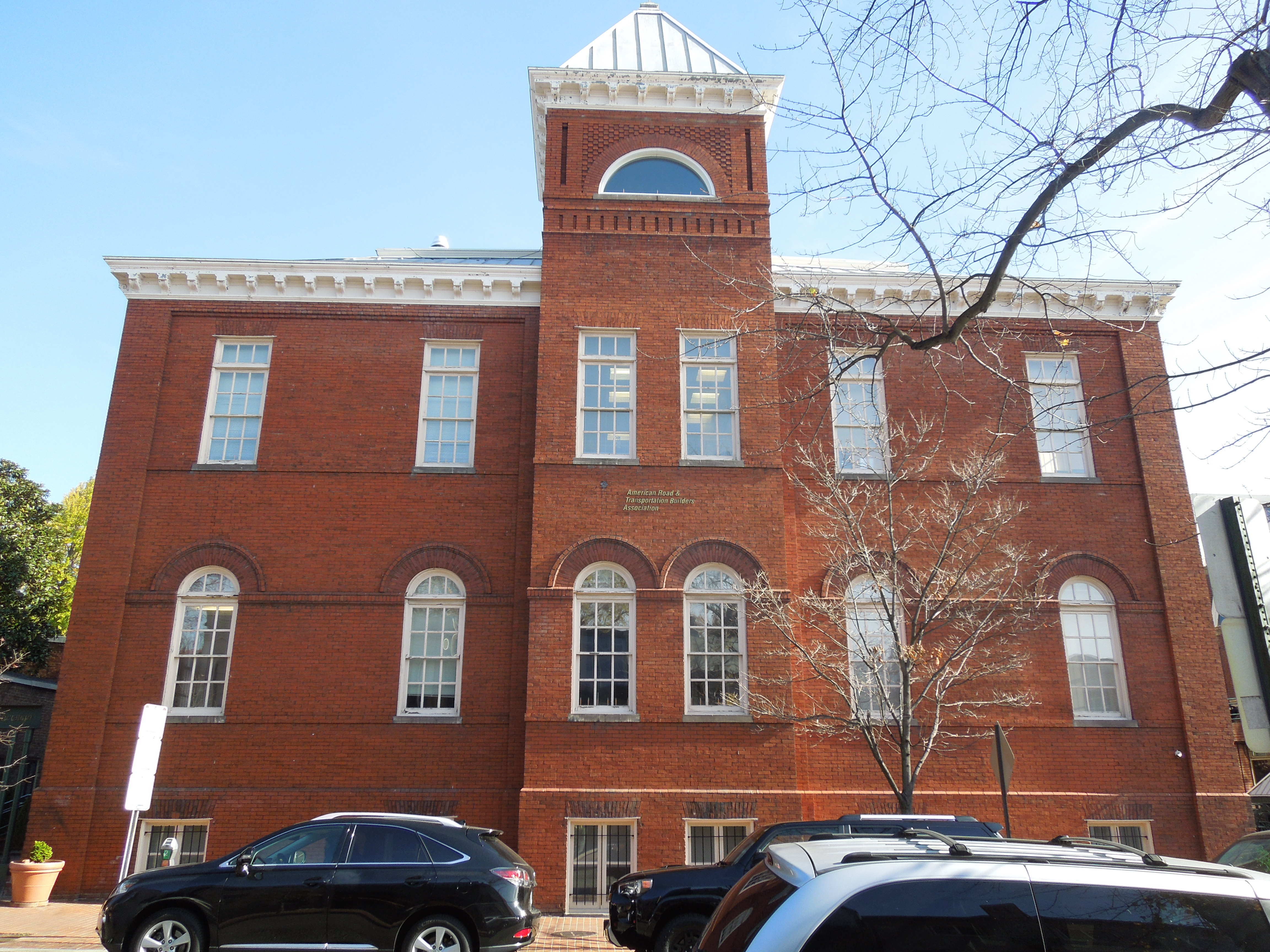 The headquarters building of the American Road and Transportation Builders Association at 1219 28th Street, N.W., in Georgetown, Washington, DC